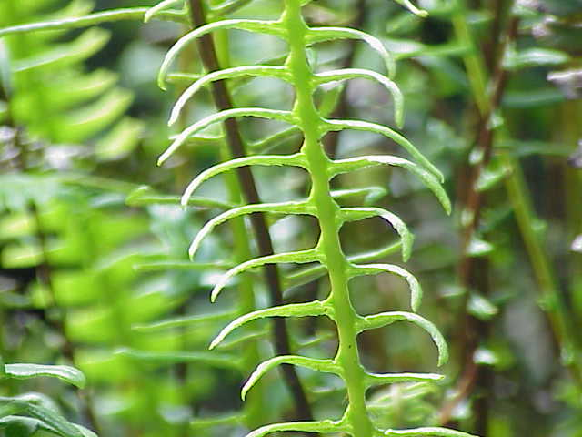 Species: Blechnum spicant Family: Blechnaceae Image No. 2